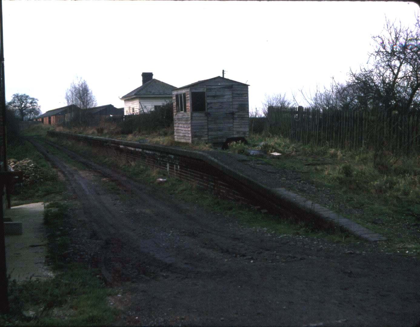 South Leigh railway station, Oxfordshire, in 1975, a few years after the line was closed